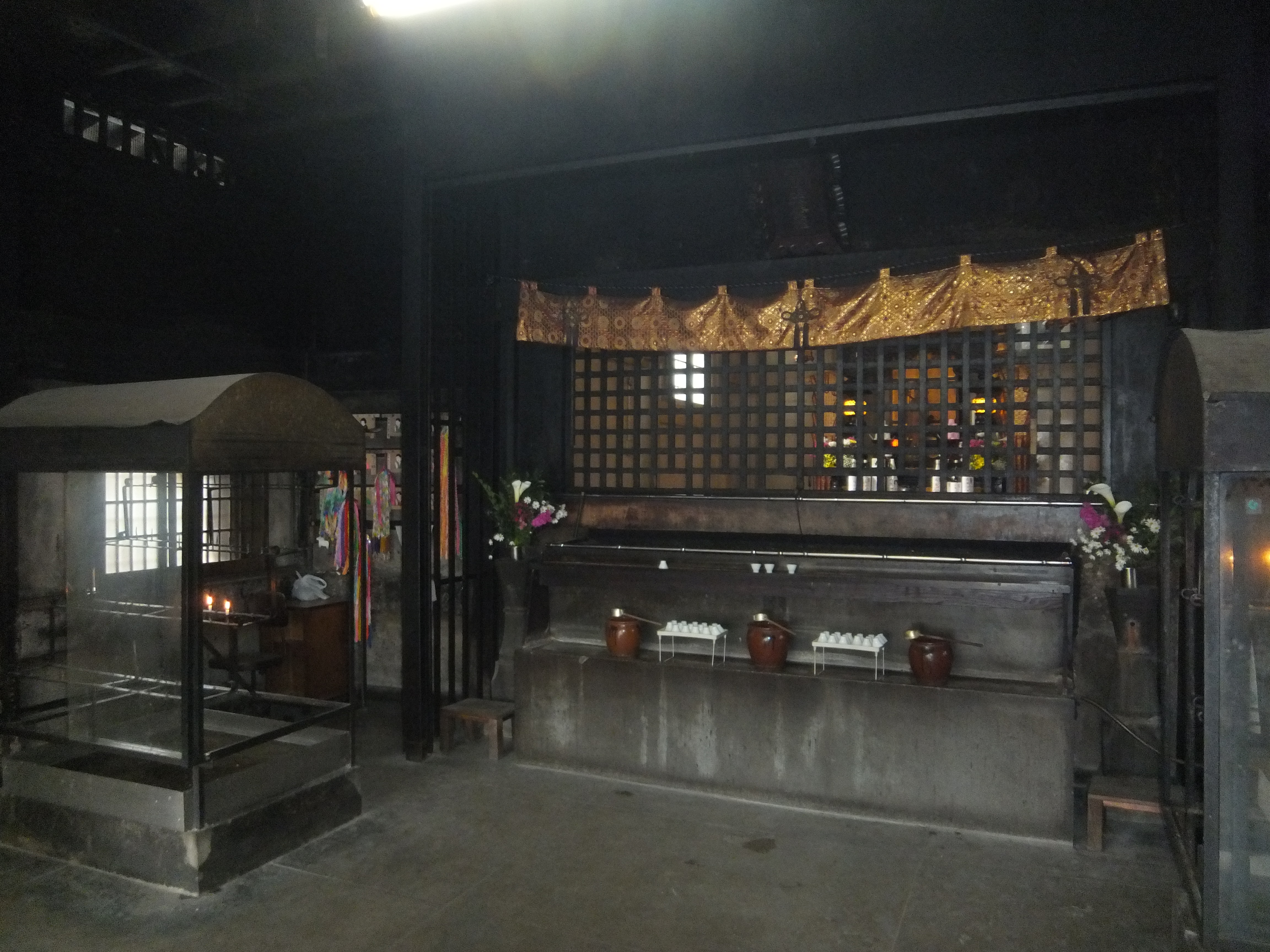 Asahi-Jizō Hall of the Sōfuku-Temple in Fukuoka (Japan)